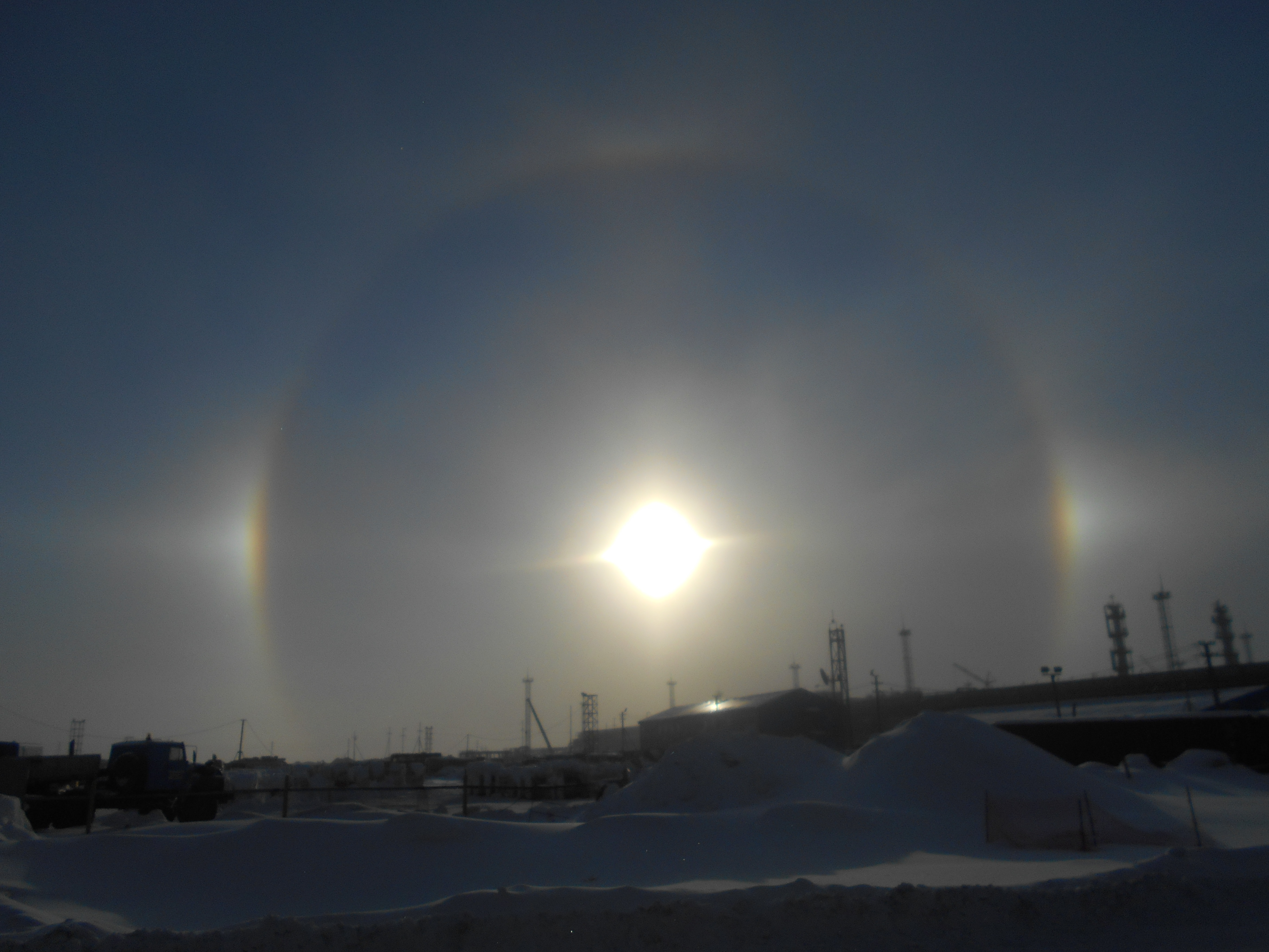 Halo from Siberia